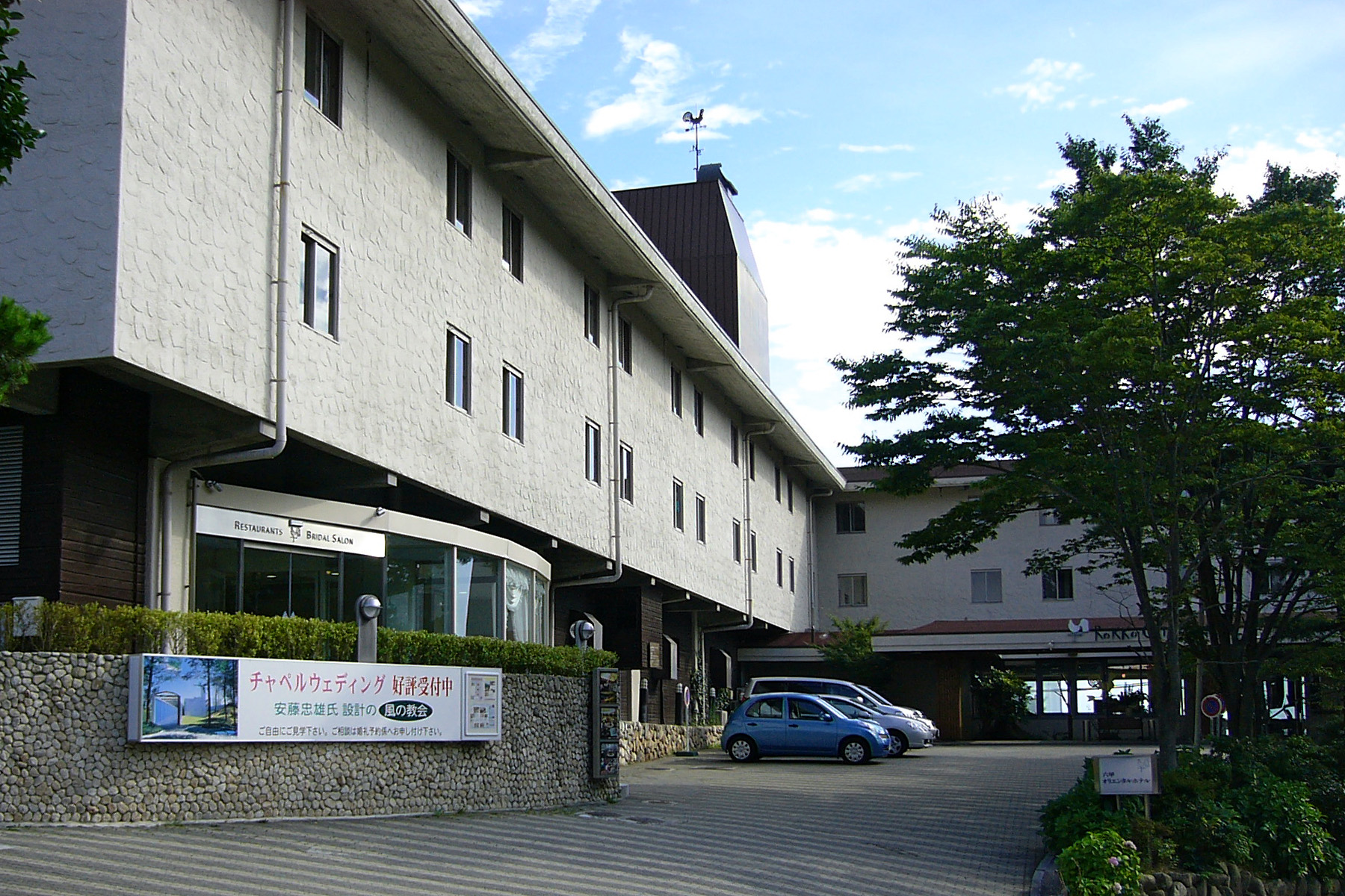 Rokko Oriental Hotel in Kobe, Hyogo prefecture, Japan